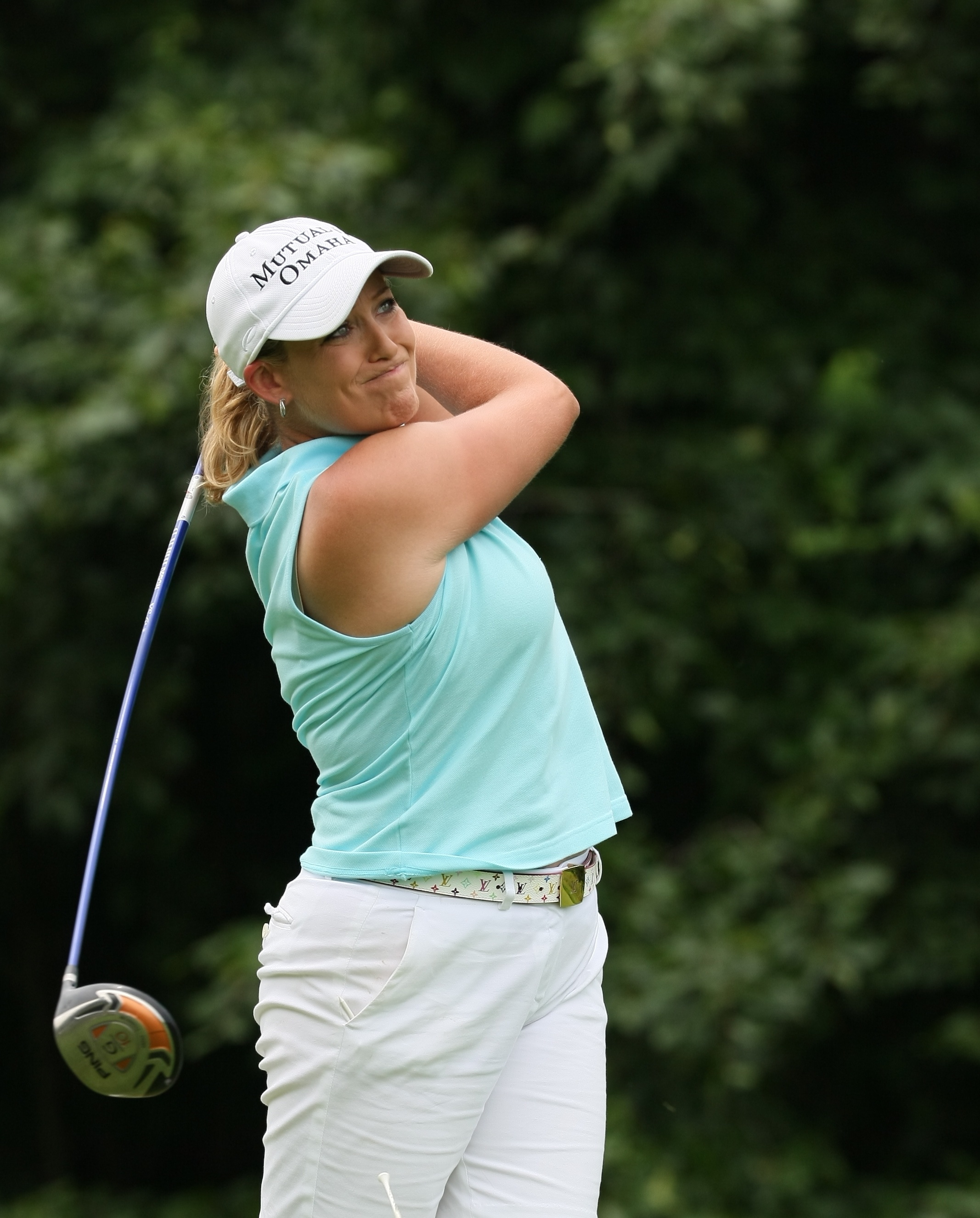 HAVRE DE GRACE, MD - JUNE 09: Cristie Kerr (USA) during Pro-Am before 2009 LPGA Championship held at Bulle Rock Golf Course, on June 9, 2009 in Havre de Grace, Maryland. (Photo by Keith Allison)